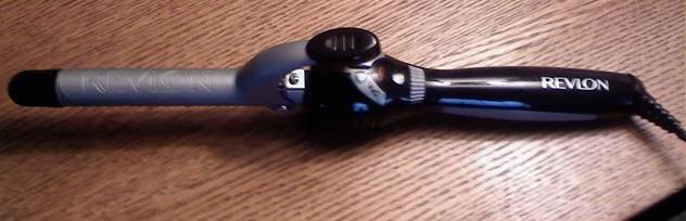 Electric curling iron.